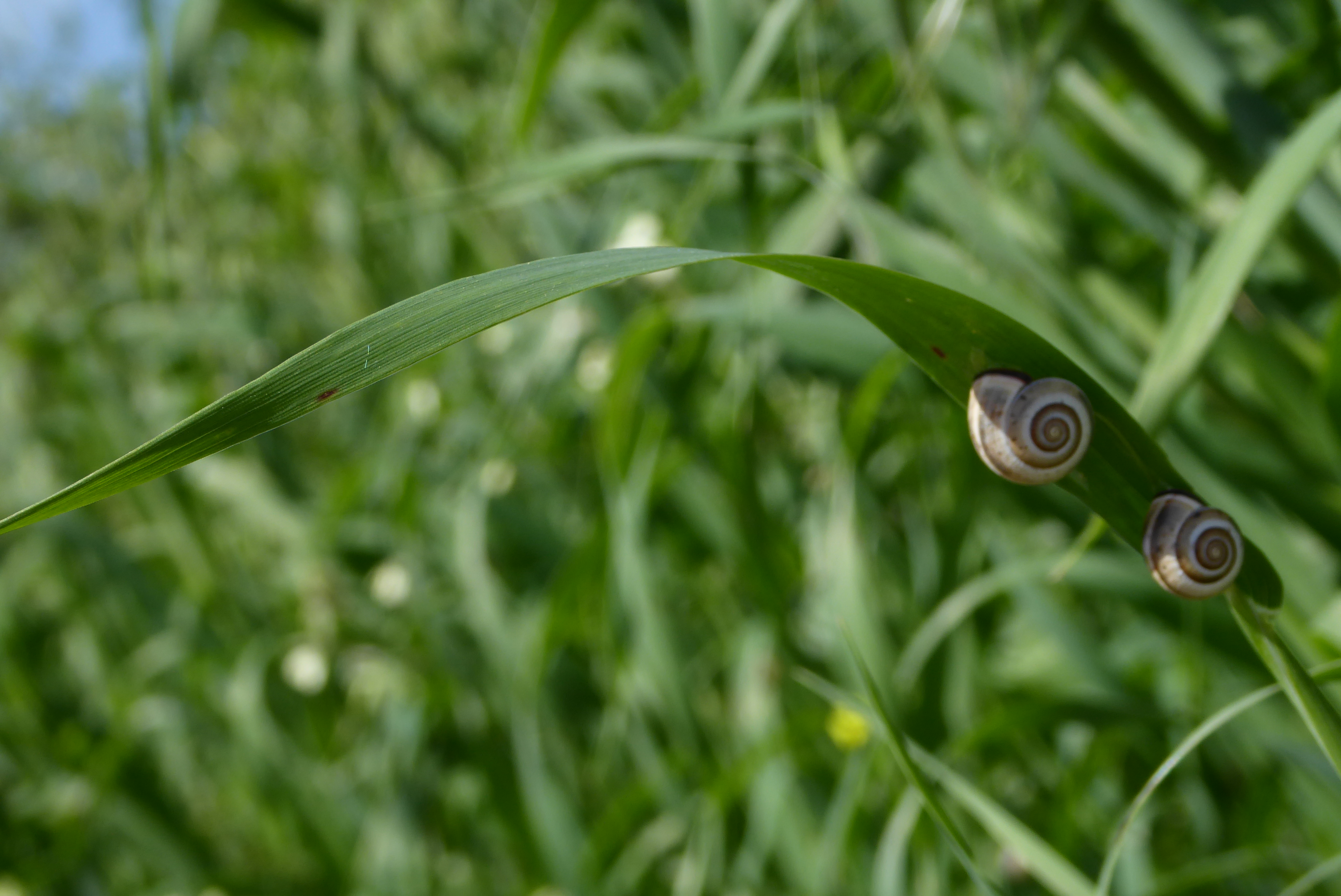 Savion blossoms